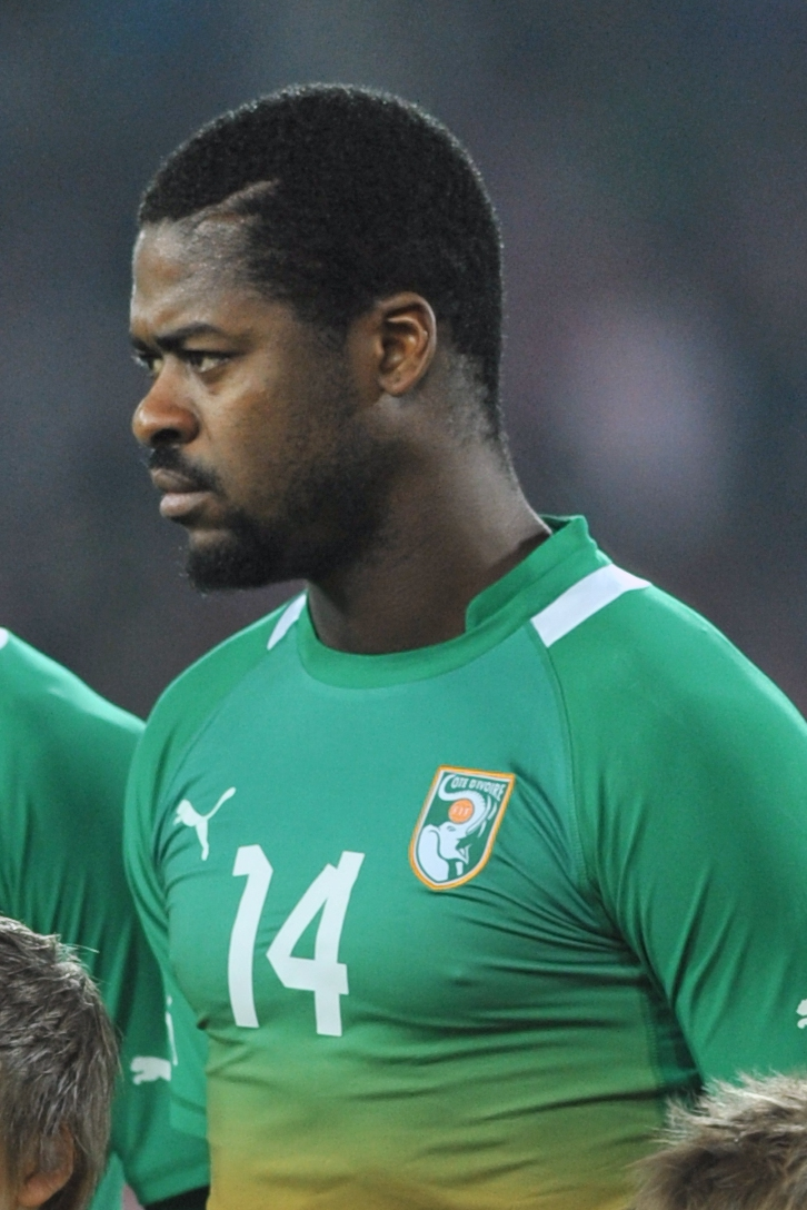 ÖFB freundschaftliches Länderspiel - Österreich vs Elfenbeinküste am 14. November 2012 The making of this work was supported by Wikimedia Austria. For other files made with the support of Wikimedia Austria, please see the category Supported by Wikimedia Österreich. Elfenbeinküste Nr. 14: Romaric